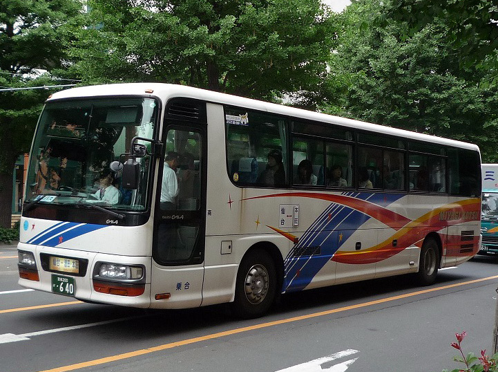 Miyagikotsu Isuzu GALA(KL-LV781R2)Highwaybus Sendai-Honjo(YuriHonjo,Akita)